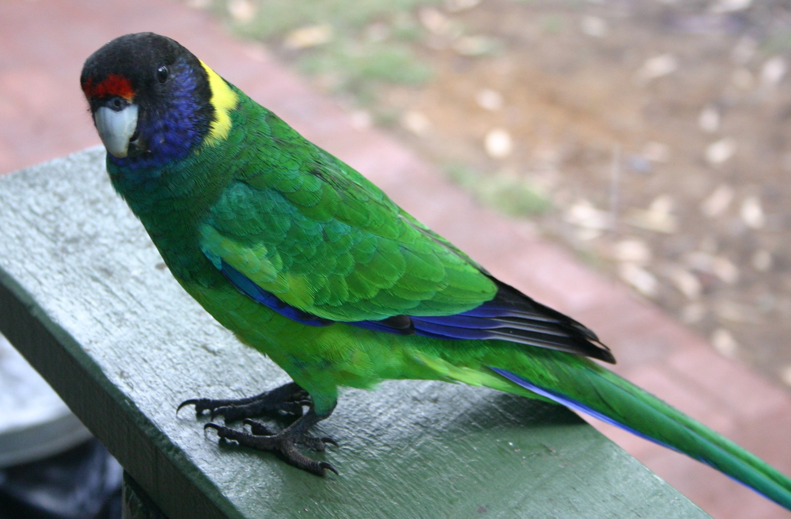 Australian ringneck near Augusta, Western Australia.